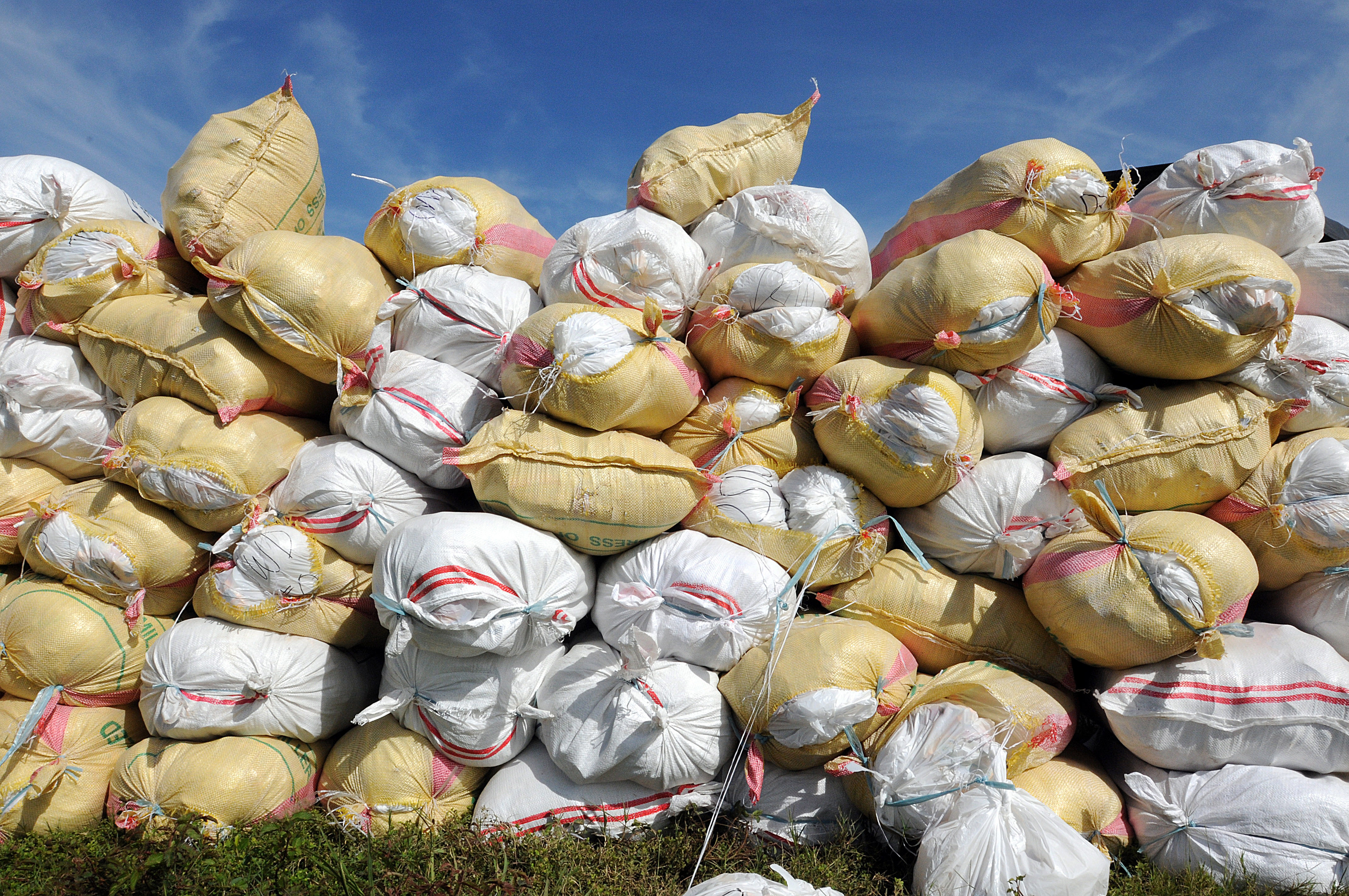 ILOILO, Philippines (June 30, 2008) 100-pound sacks of rice are stacked before being loaded into U.S. Navy helicopters assigned to the Ronald Reagan Carrier Strike Group for delivery to remote locations on the Philippine Island of Panay. The aircraft carrier USS Ronald Reagan (CVN 76) is off the coast of Panay Island providing humanitarian assistance and disaster response in the wake of Typhoon Fengshen. U.S. Navy photo by Senior Chief Mass Communication Specialist Spike Call (Released)